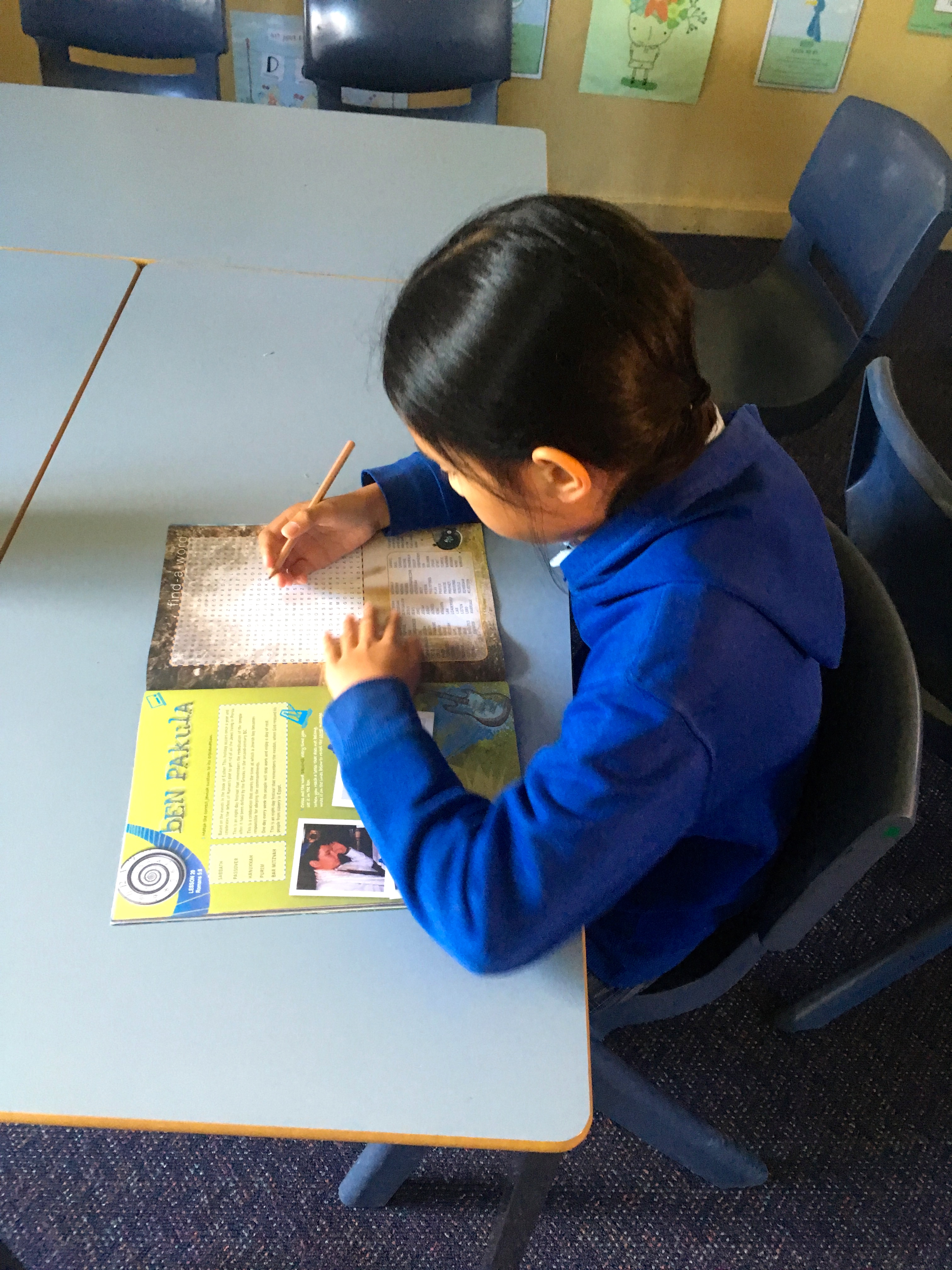 Child working in their scripture booklet